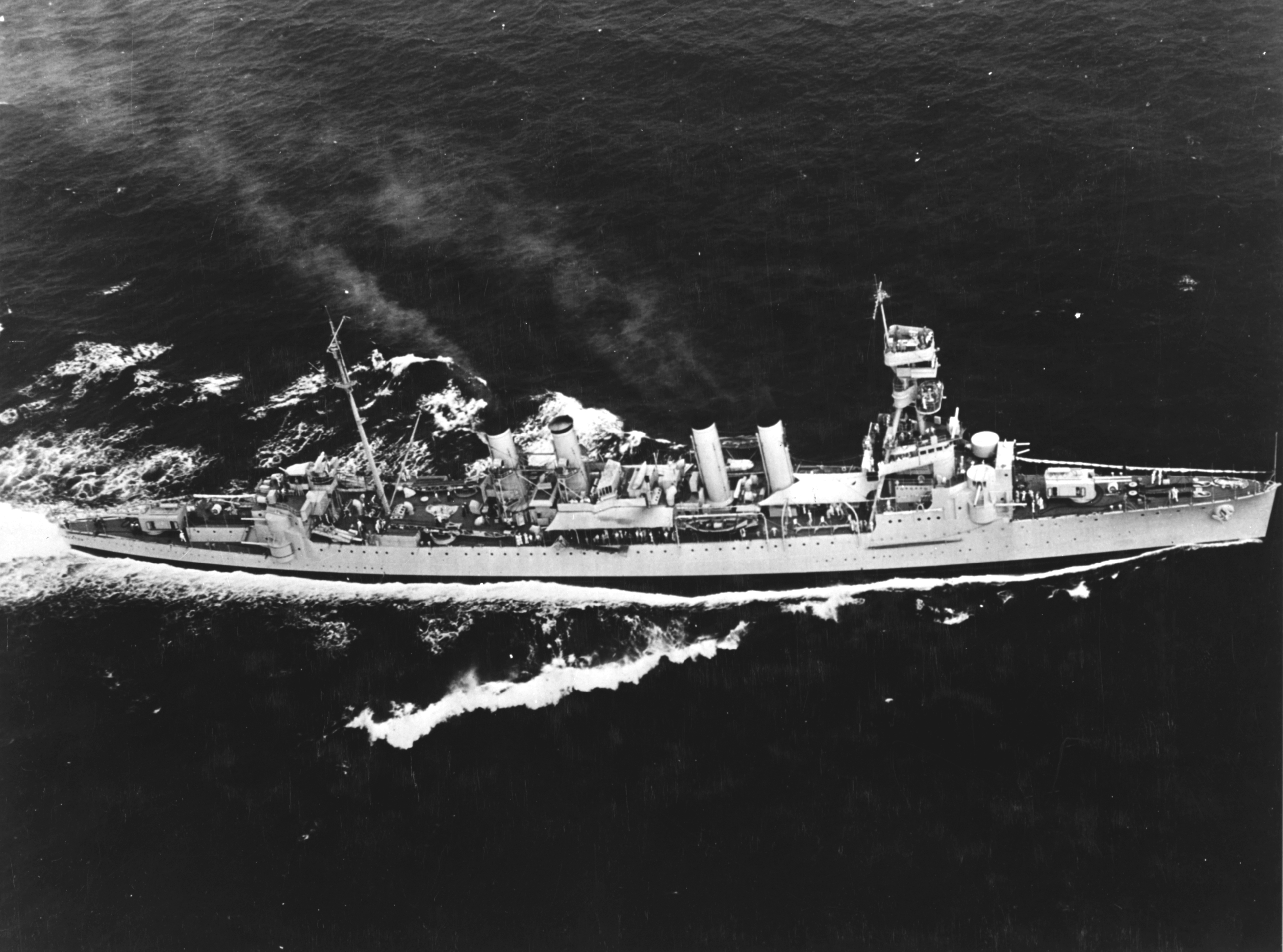 The U.S. Navy light cruiser USS Trenton (CL-11) underway at sea on 23 October 1935.